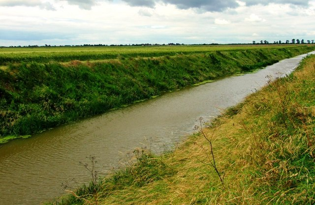 North Forty Foot Smaller of the drains termed 'Forty Foot' that cross Great Fen in Boston West. This takes drainage from Gill Syke in Holland Fen to the sluice at Wyberton.